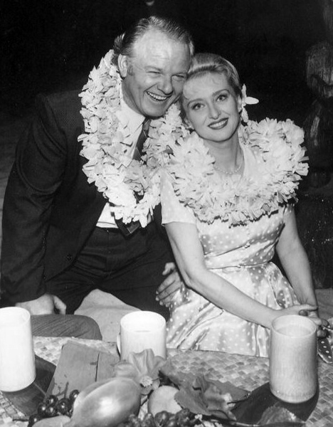 Publicity photo from the television program Follow the Sun. Pictured are Alan Hale, Jr. and Celeste Holm in the "Irresistable Miss Bullfinch" episode.